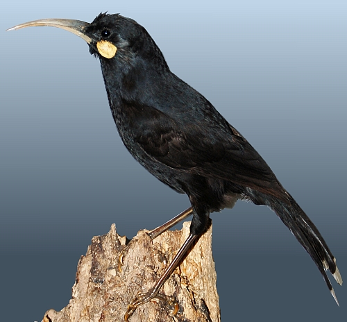 Huia, Lappenhopf, Heteralocha acutirostris, mounted female, Museum Wiesbaden, Germany